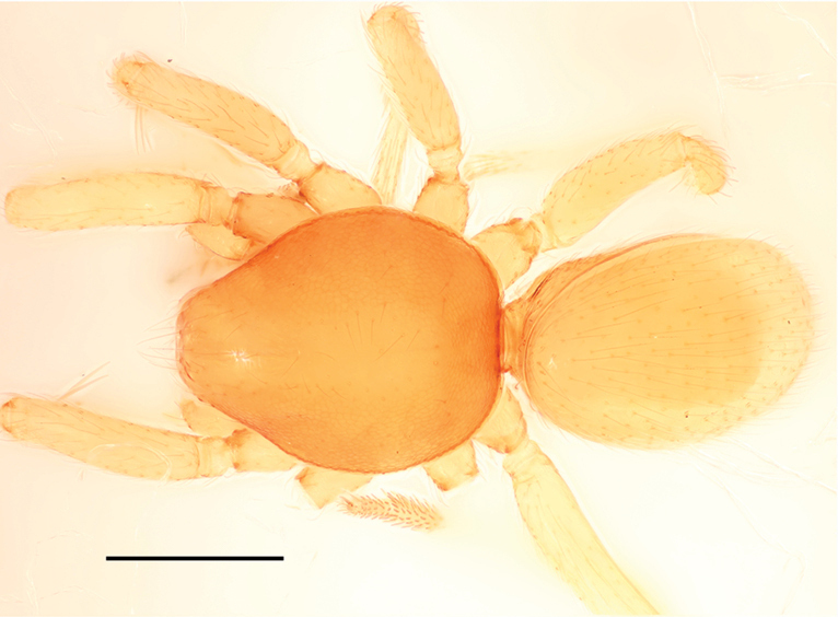 Bannana crassispina male, dorsal view. Scale bar: 0.4 mm